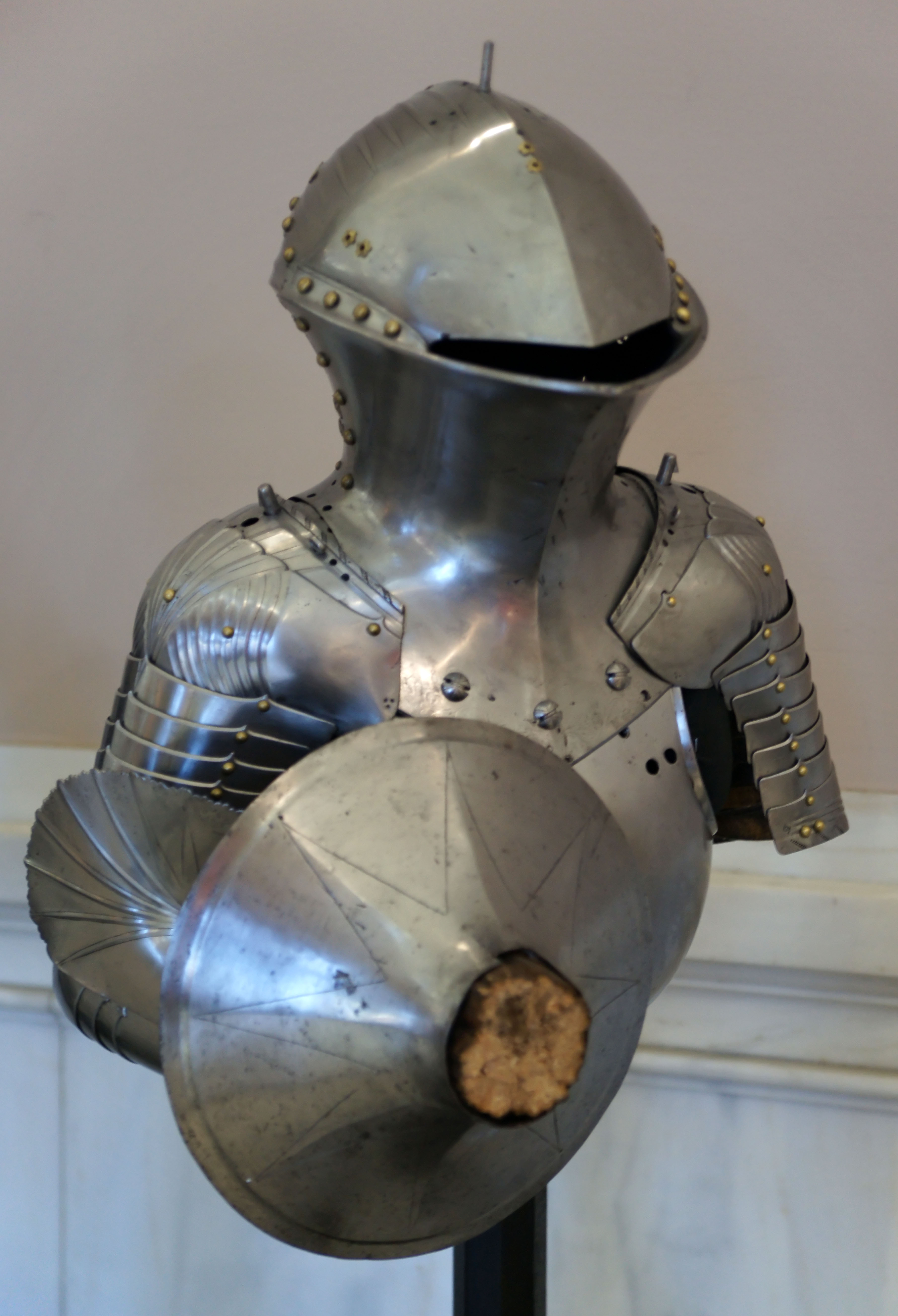 Jousting armor commissioned by Maximilian I in 1494.